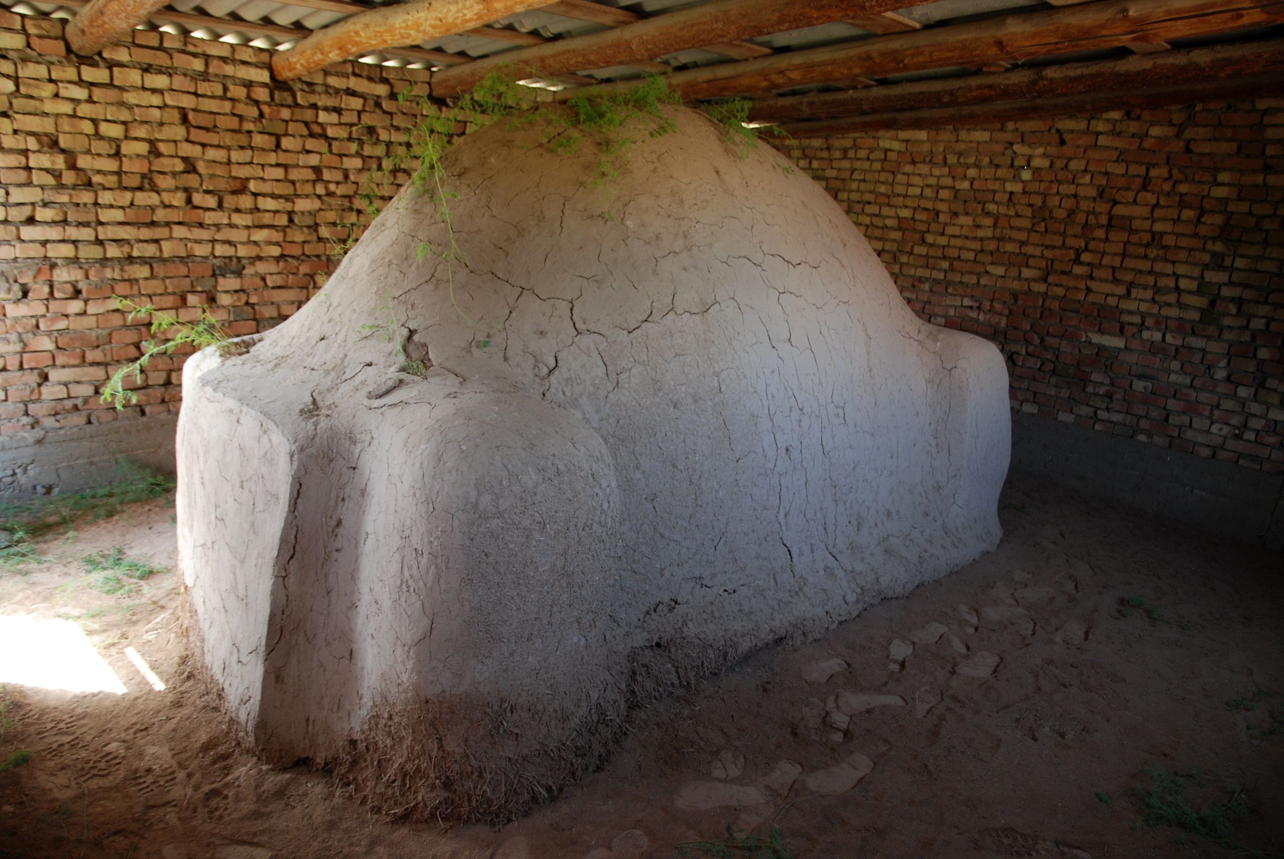 Khoja Sarboz, 5 km south of Shahrtuz